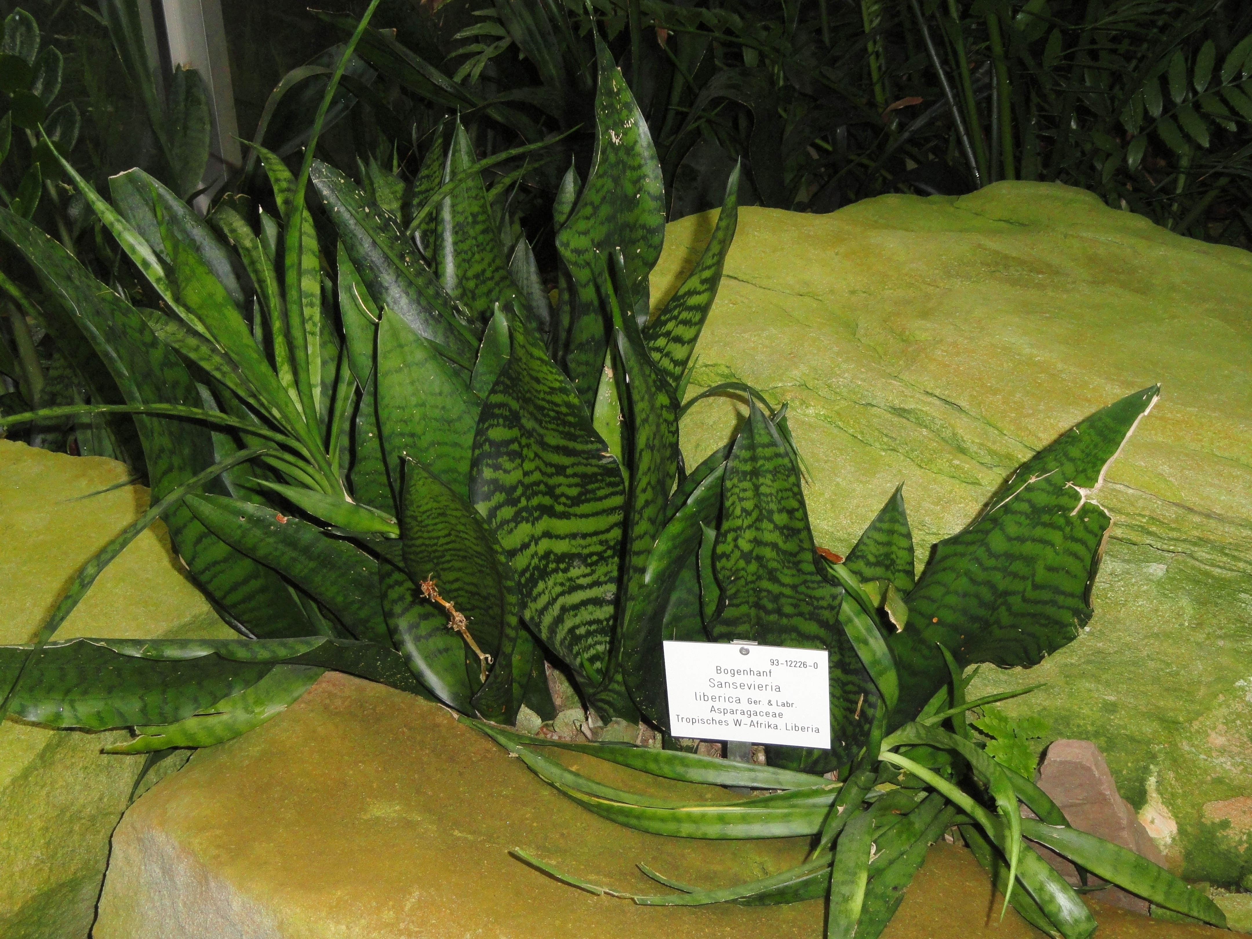 Botanical specimen in the Palmengarten, Frankfurt am Main, Germany.